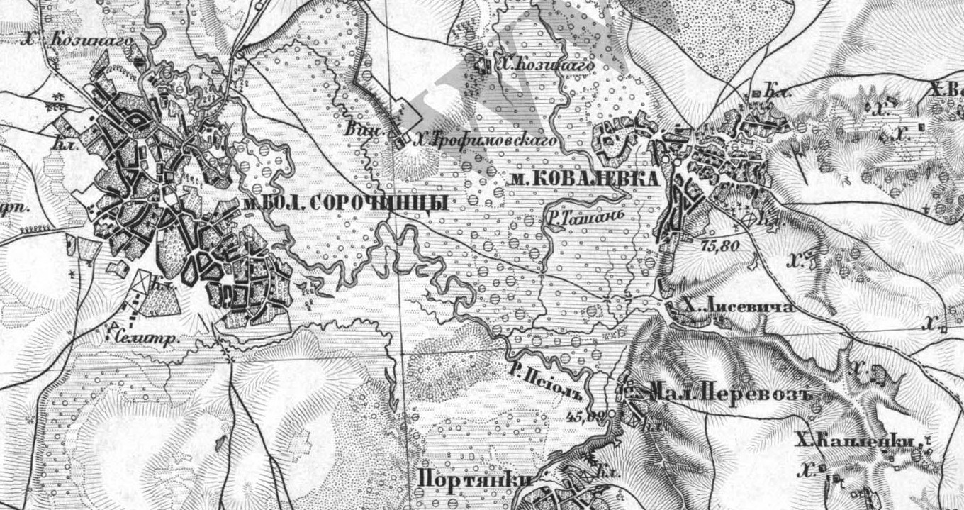 The small town Velyki Sorochyntsi 'Myrgorod County on the map in 1916